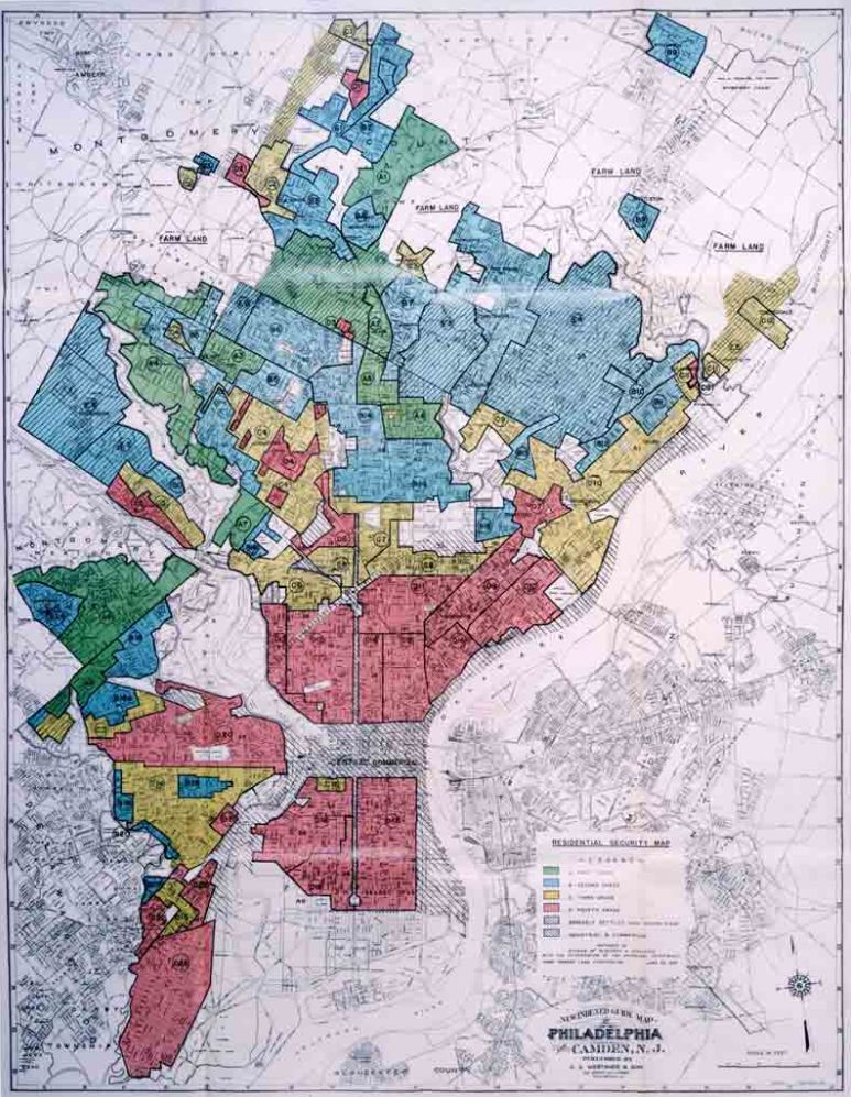 The HOLC maps are part of the Records of the FHLBB (RG195) at the National Archives II.